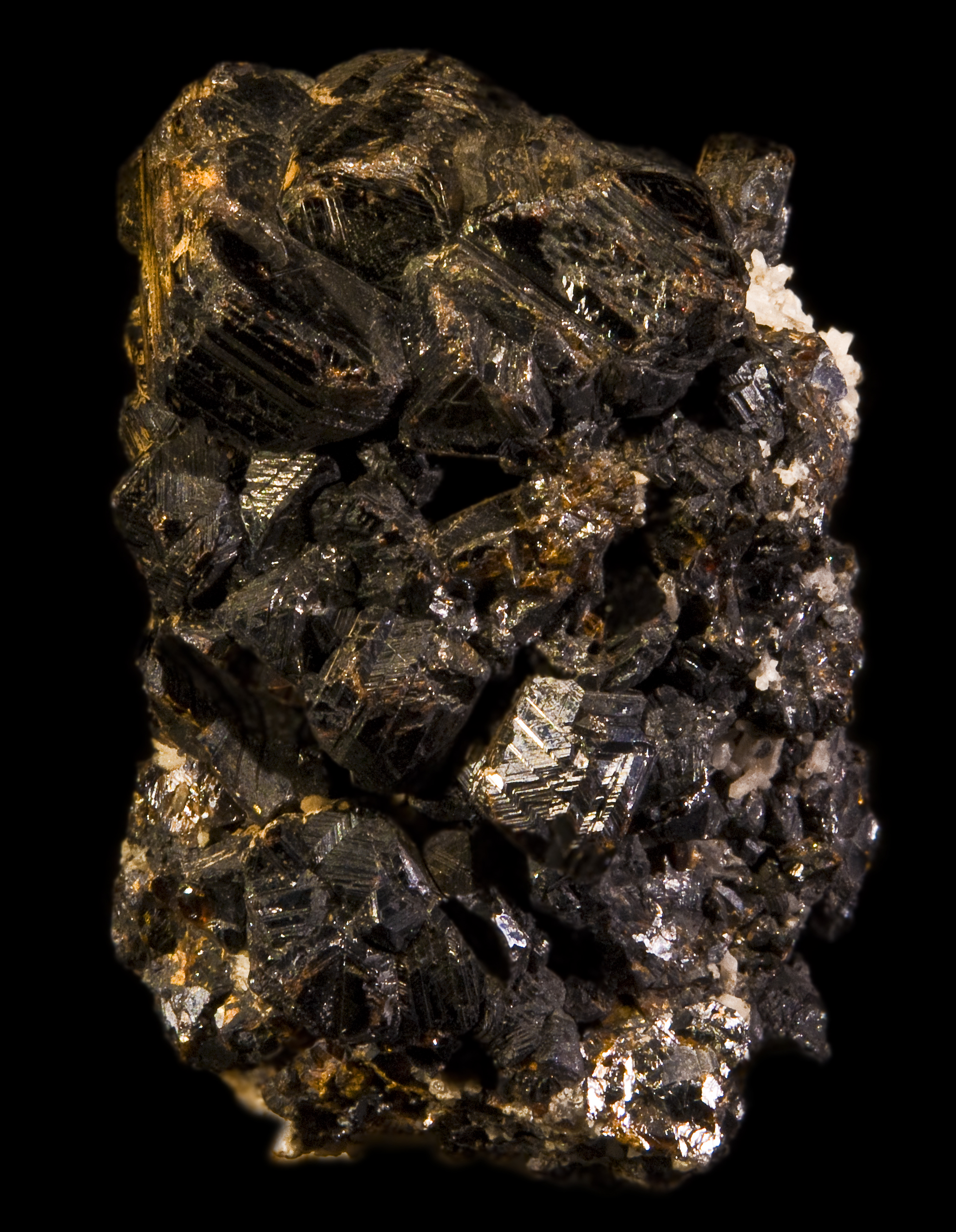 Sphalerite - Nikolaevskiy Mine, Dal'negorsk, Nr. the Sea Of Japan, 500 KM N E of VLADIVOSTOK, Primorsky Kray, Far Eastern Russia (6.5x4cm)